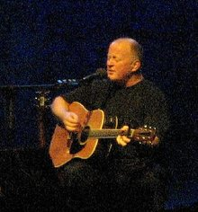 Christy Moore in Vicar Street.